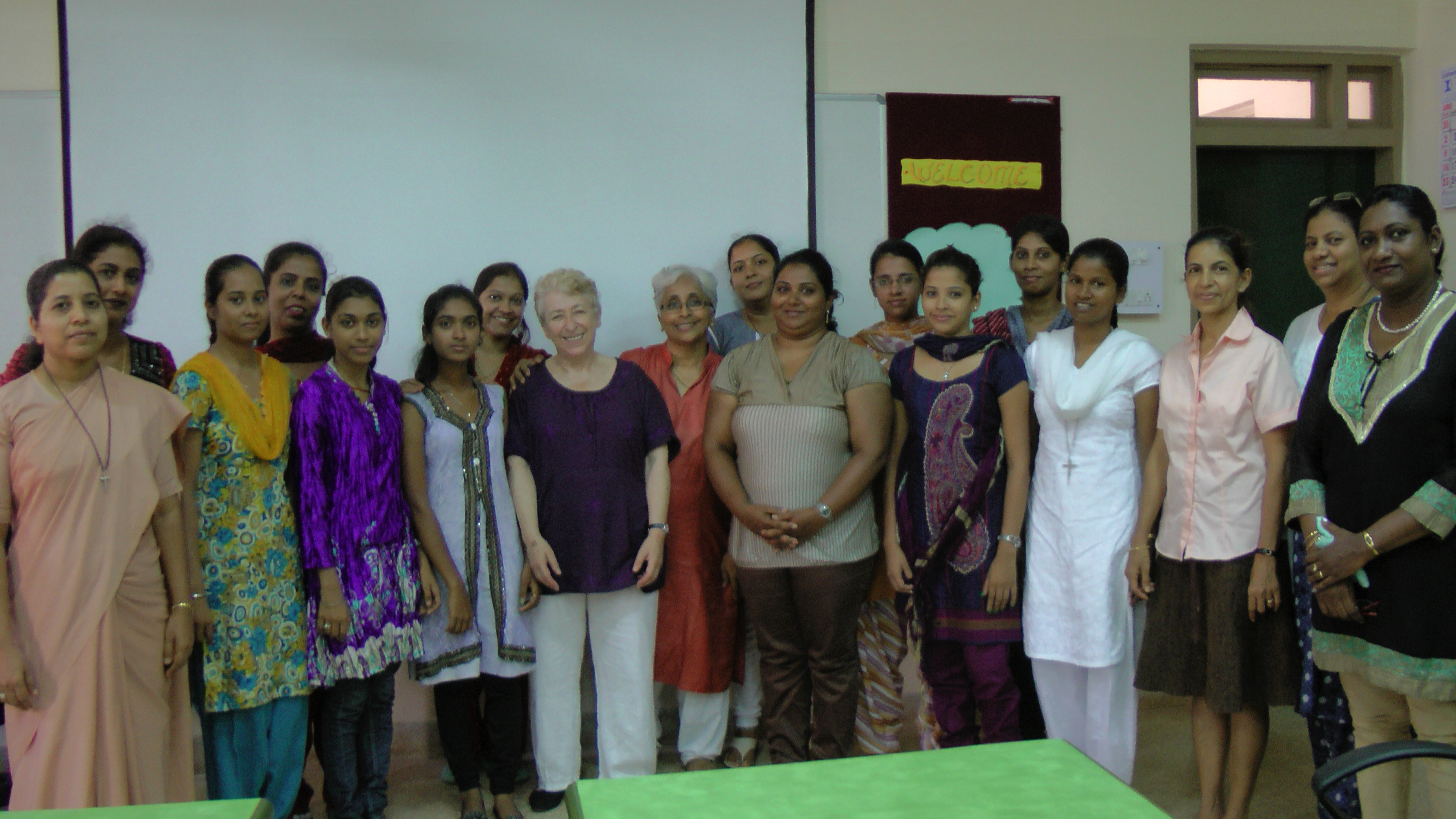 Naomi Susan Isaacs with students at a Music in Education workshop she conducted in at the Nirmala Instittue of Education in Goa. August 2013